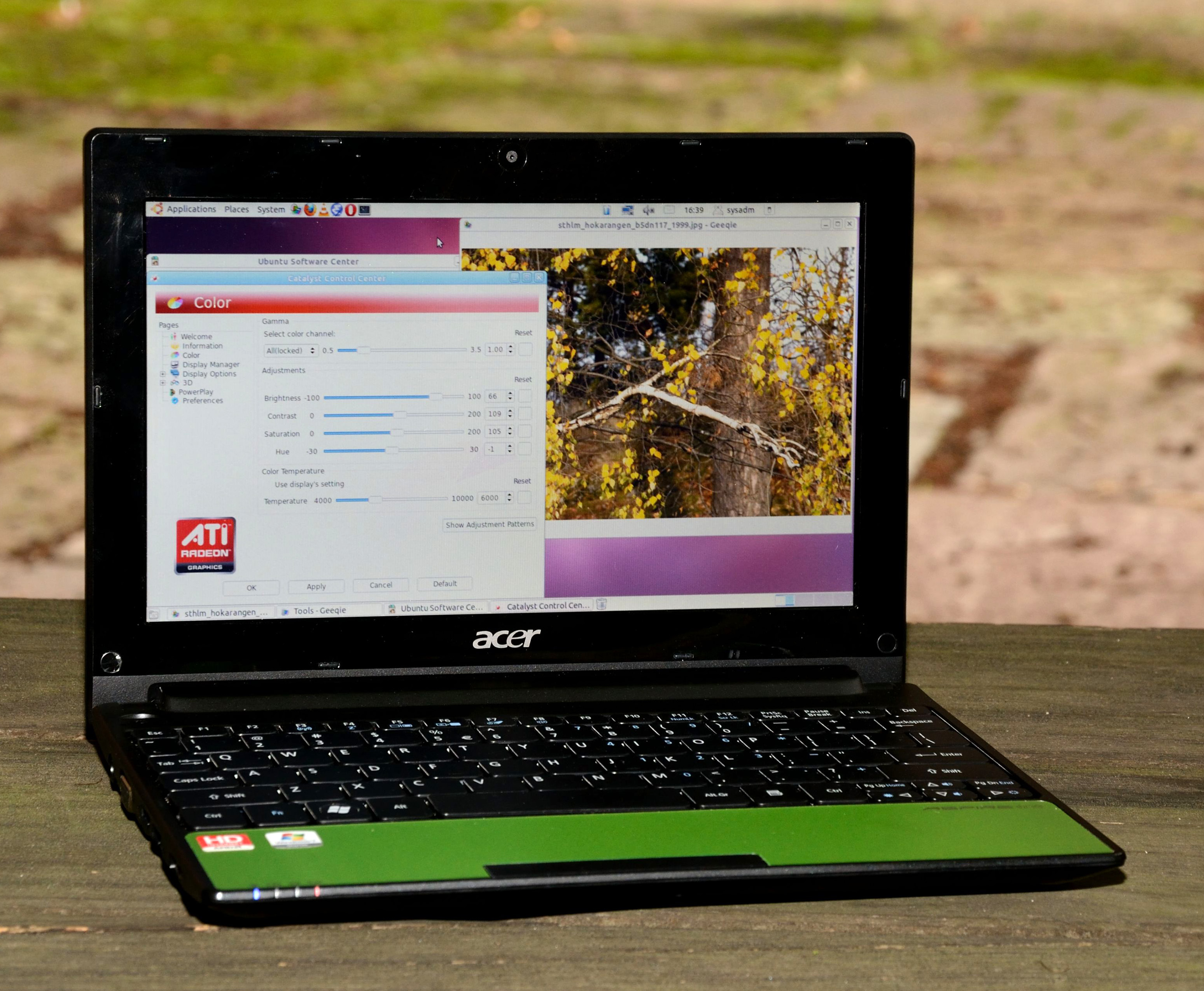 Aspire One showing Ubuntu color adjustment.